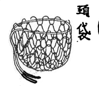 A Japanese Edo period wood block print of a kubi bukuro (Head Bag)A bag, made of network, used by samurai to carry the severed head of an enemy. When walking it was worn at the waist, when mounted it was fastened to the saddle.